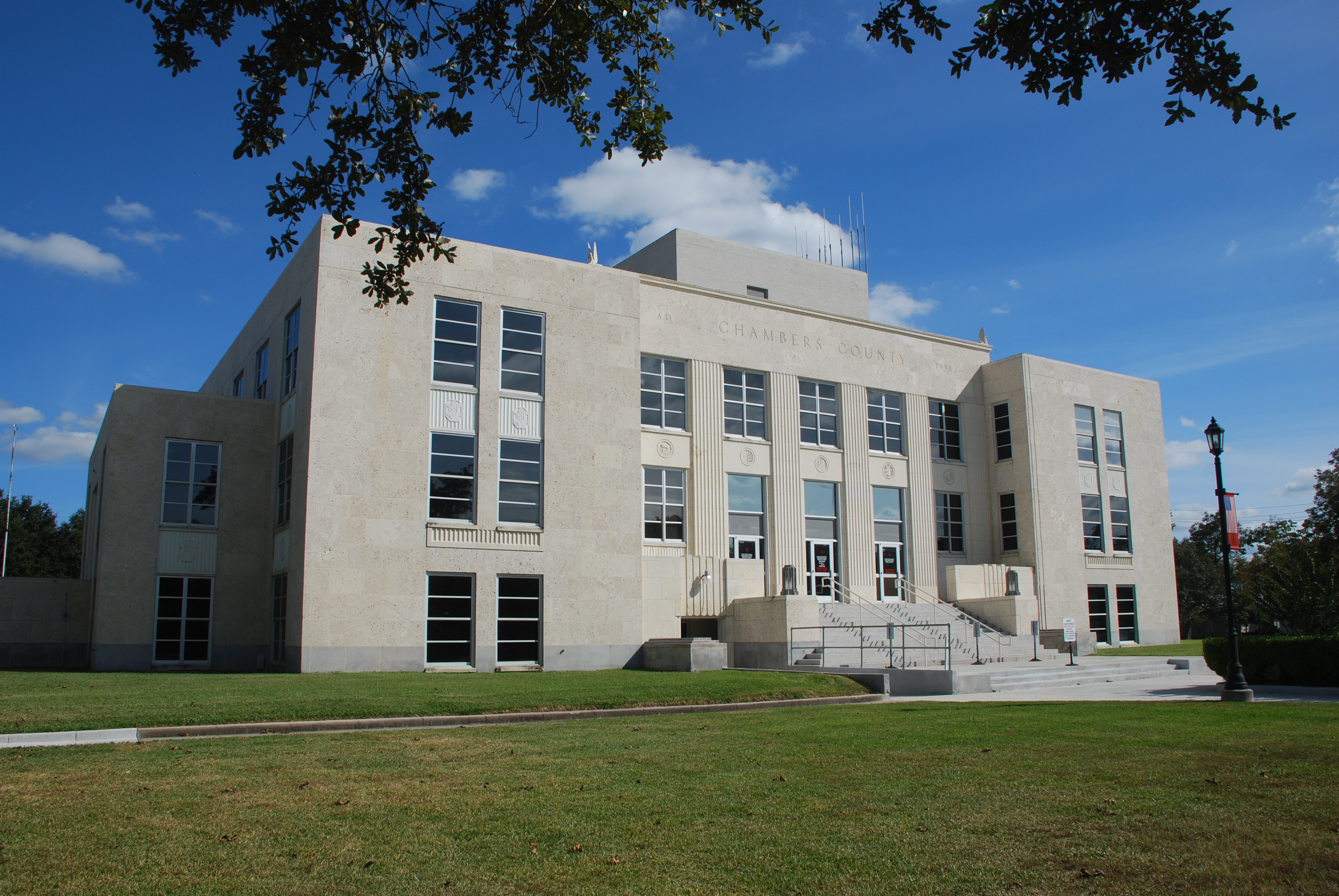 Chambers County Courthouse, Anahuac (Texas, USA)